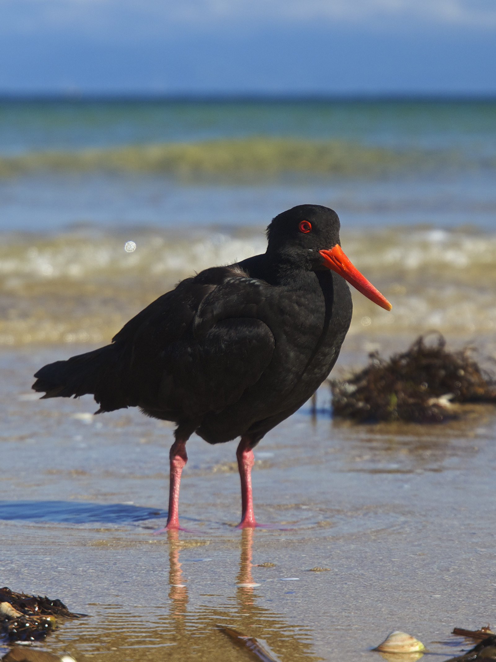 Variable Oystercatcher (Haematopus unicolor), Abel Tasman National Park, New Zealand